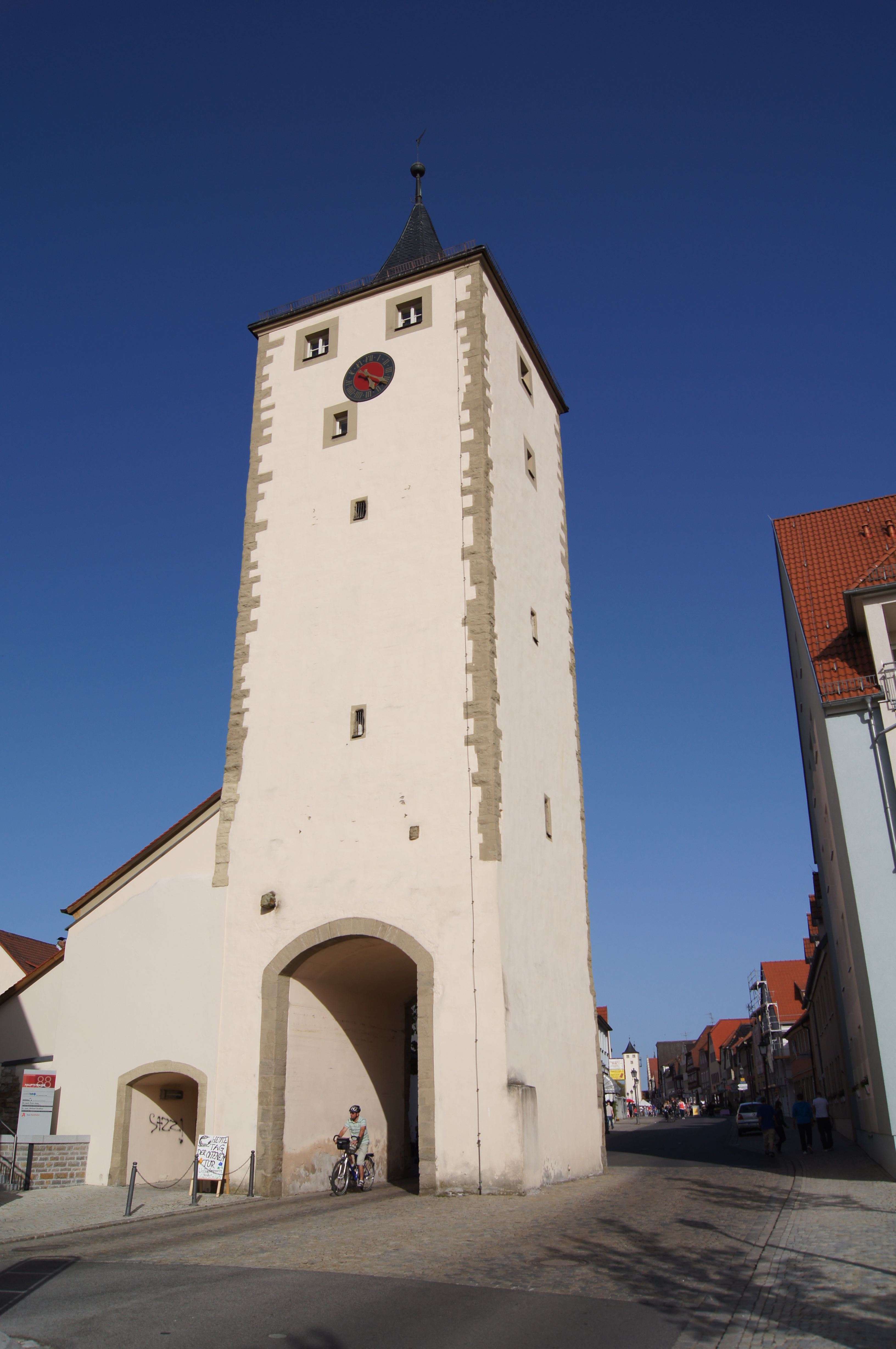 Hassfurt City Gate